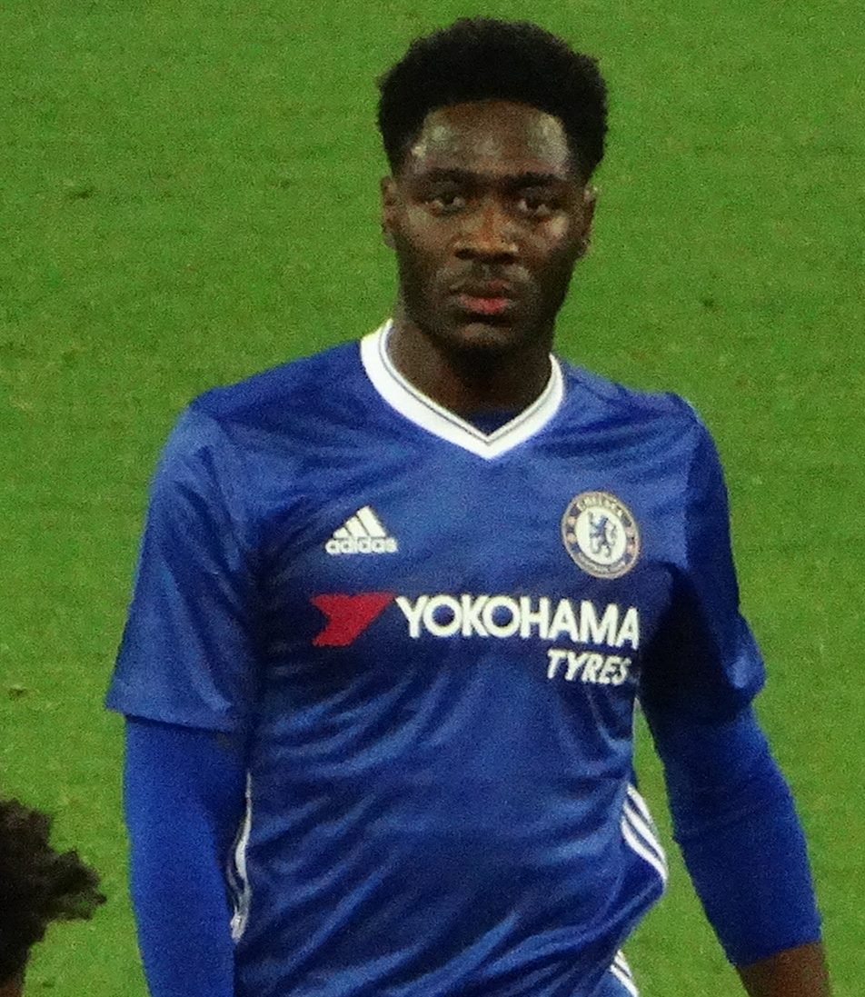 EFL Cup 4th round 26.10.16